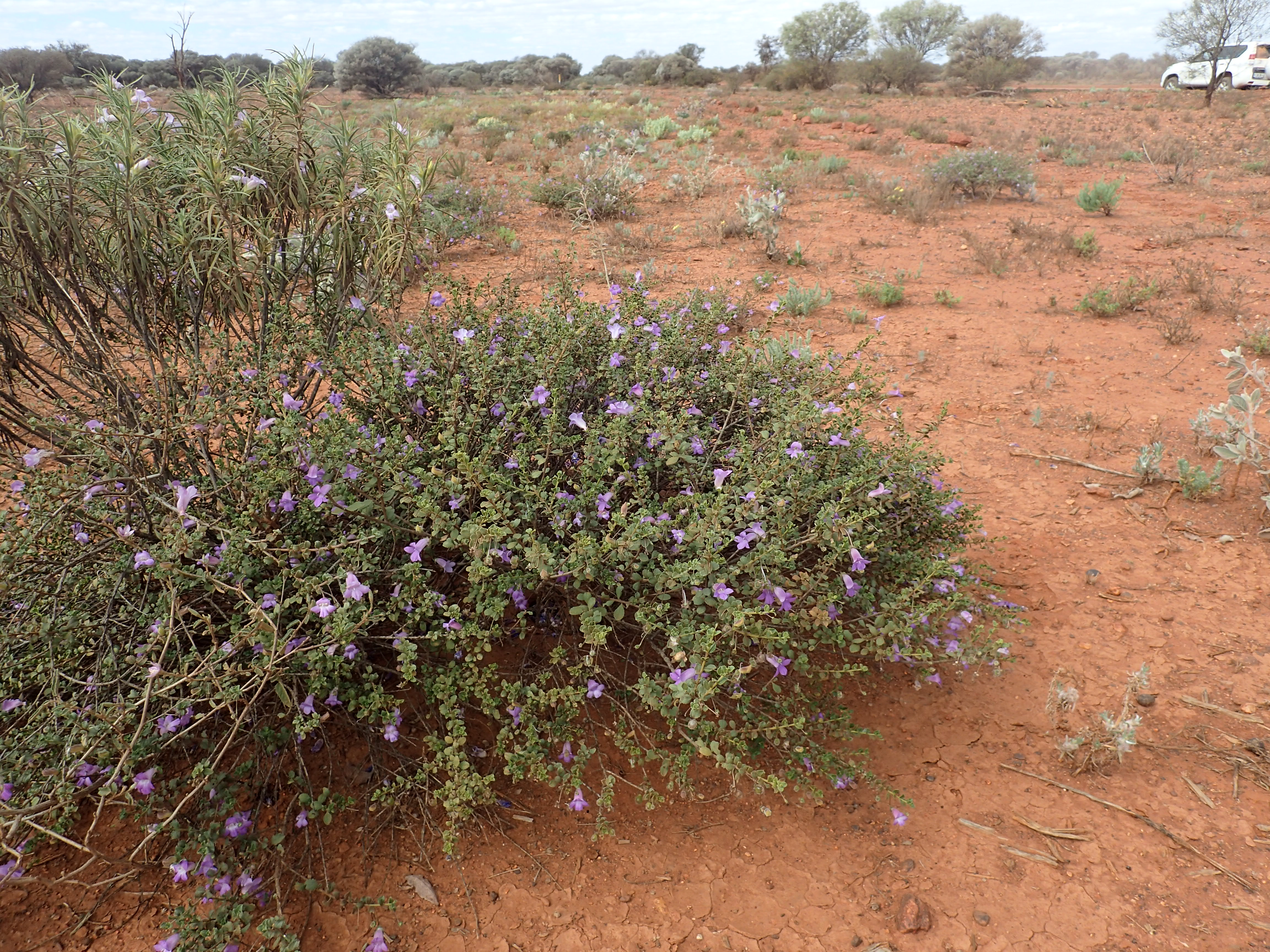 Eremophila enata growing 34km west of Wiluna